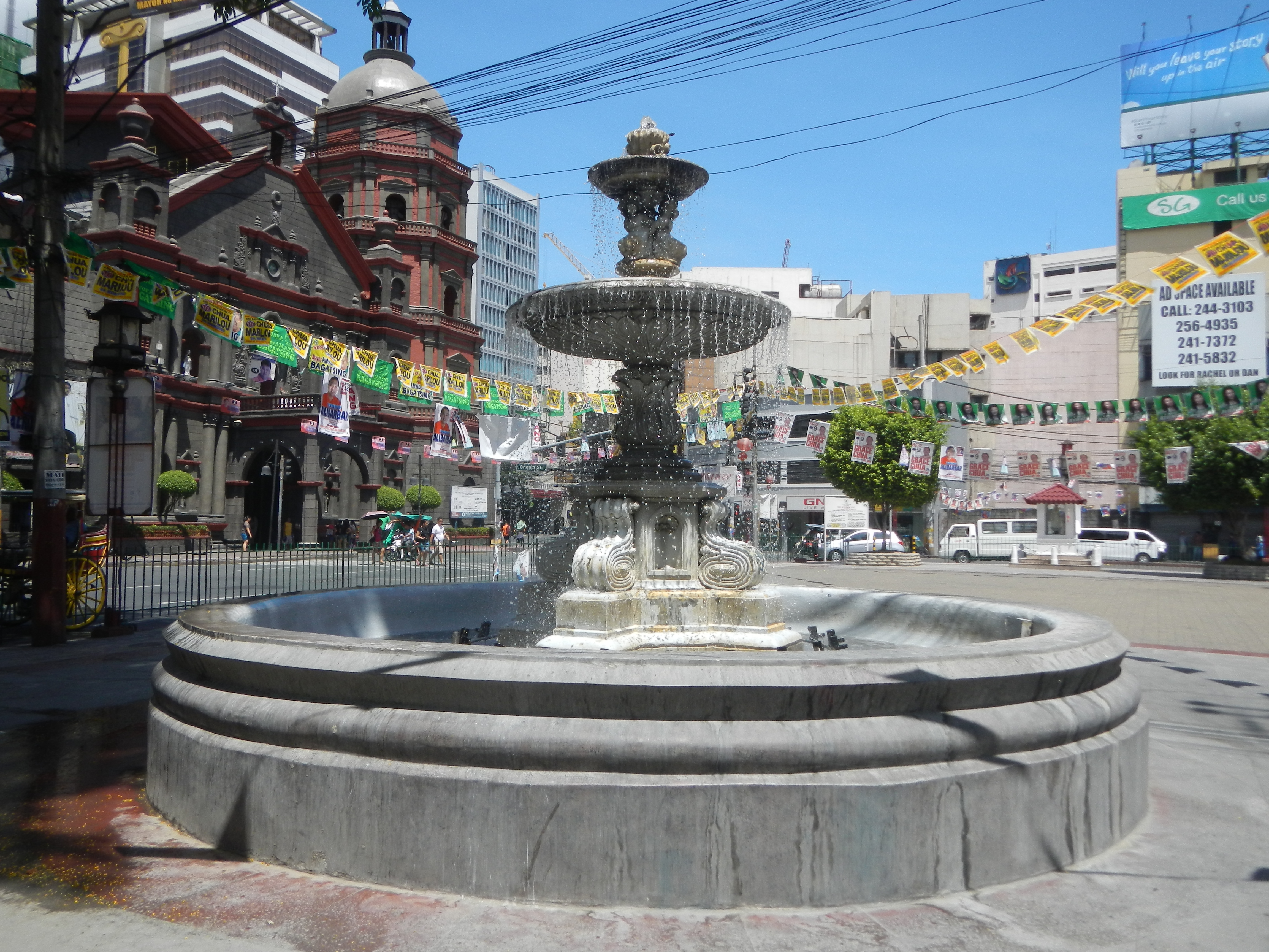 Roman Ongpin Statue (Manila) Ramada Manila Central Quintin Paredes Street corner Ongpin Street Binondo, Plaza San Lorenzo Ruiz, with the facade of the Minor Basilica of Saint Lorenzo Ruiz or the Binondo Church Filipino Chinese WWII Martyrs Memorial, San Lorenzo Ruiz Statue, Wellington Building (in Legislative districts of Manila Barangays 288 Zone 27, & 295 and 296, Zone 28, 3rd District, Binondo, Manila, City of Manila Norberto Ty (Condesa) Street to Ongpin Street, List of Cultural Properties of the Philippines in Metro Manila; Note: Judge Florentino Floro, the owner, to repeat, Donor Florentino Floro of all these photos hereby donate gratuitously, freely and unconditionally all these photos to and for Wikimedia Commons, exclusively, for public use of the public domain, and again without any condition whatsoever).